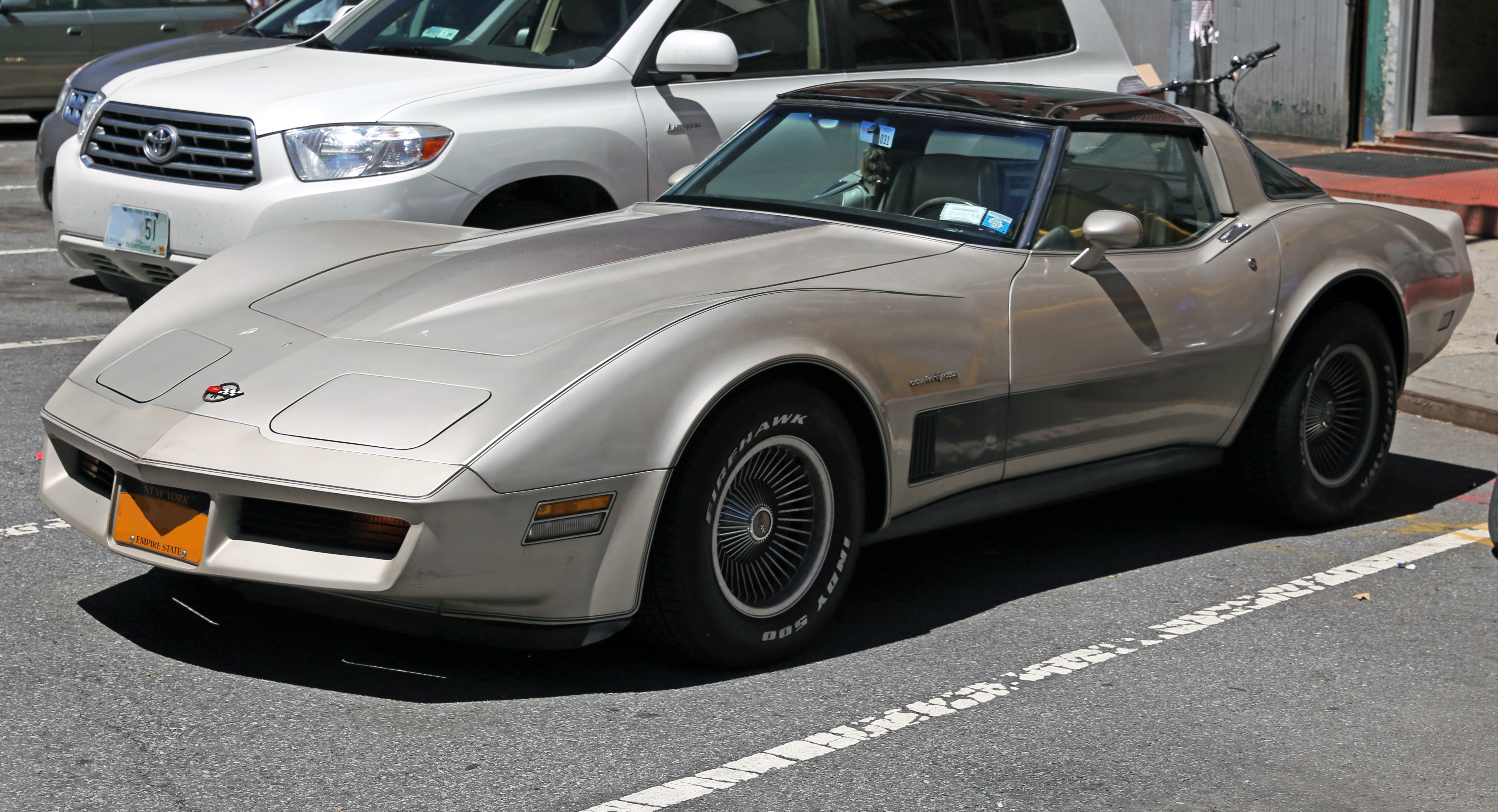 1982 Chevrolet Corvette Collector Edition. Special paintjob and turbine wheels in the style of 1967 Corvettes make it a special edition.